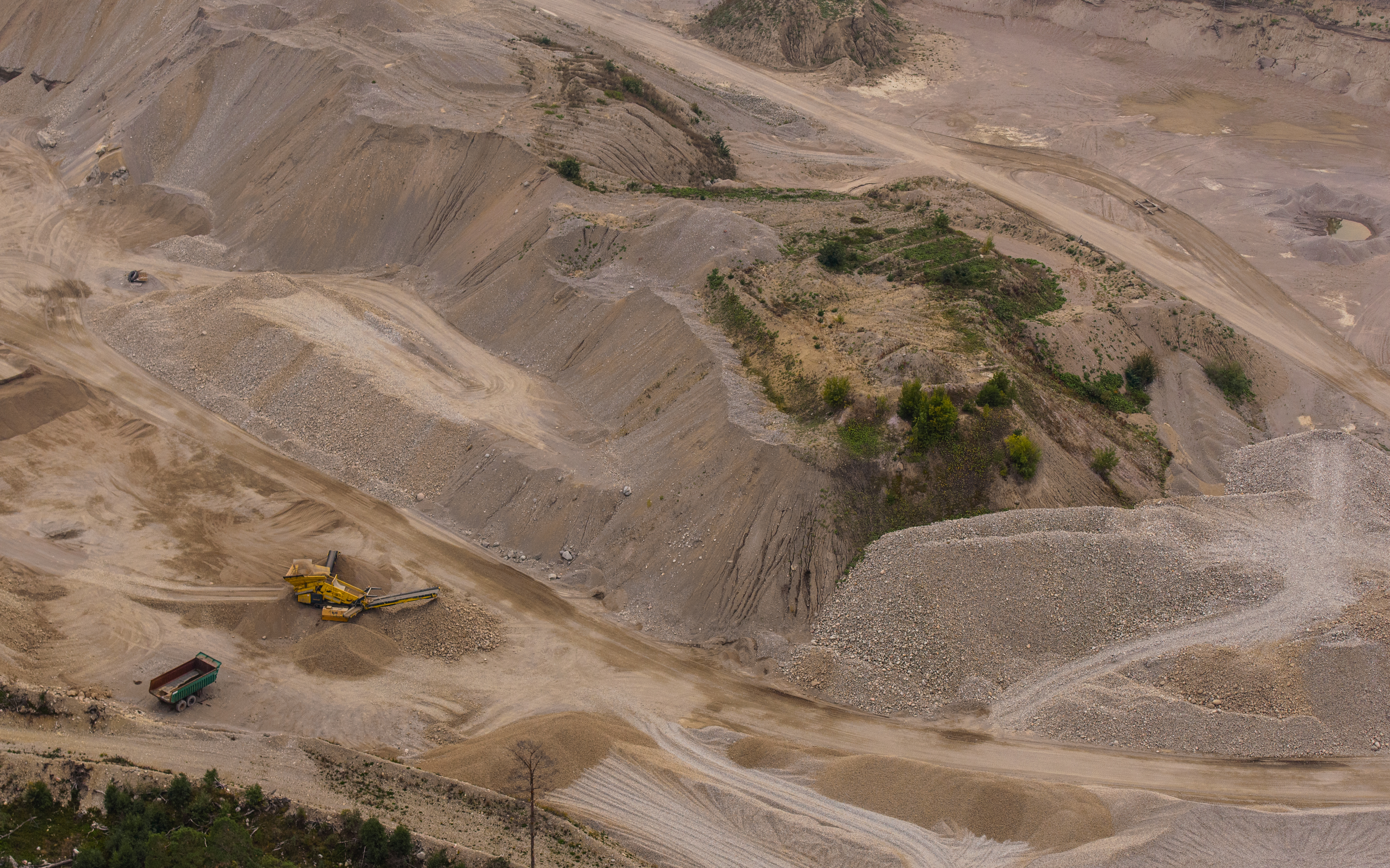 Löten gravel pit, Ekerö (Stockholm county).